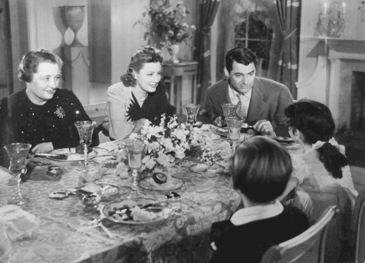 Photo of Anne Shoemaker, Cary Grant and Irene Dunne (the adults) from the 1940 film My Favorite Wife. Note that the uploaded photo is a better, larger copy of the one scanned from the book. A search for renewals was done in books for the years 1970 and 1971. Neither the title nor the author was listed; there's no evidence of copyright continuing on this book.